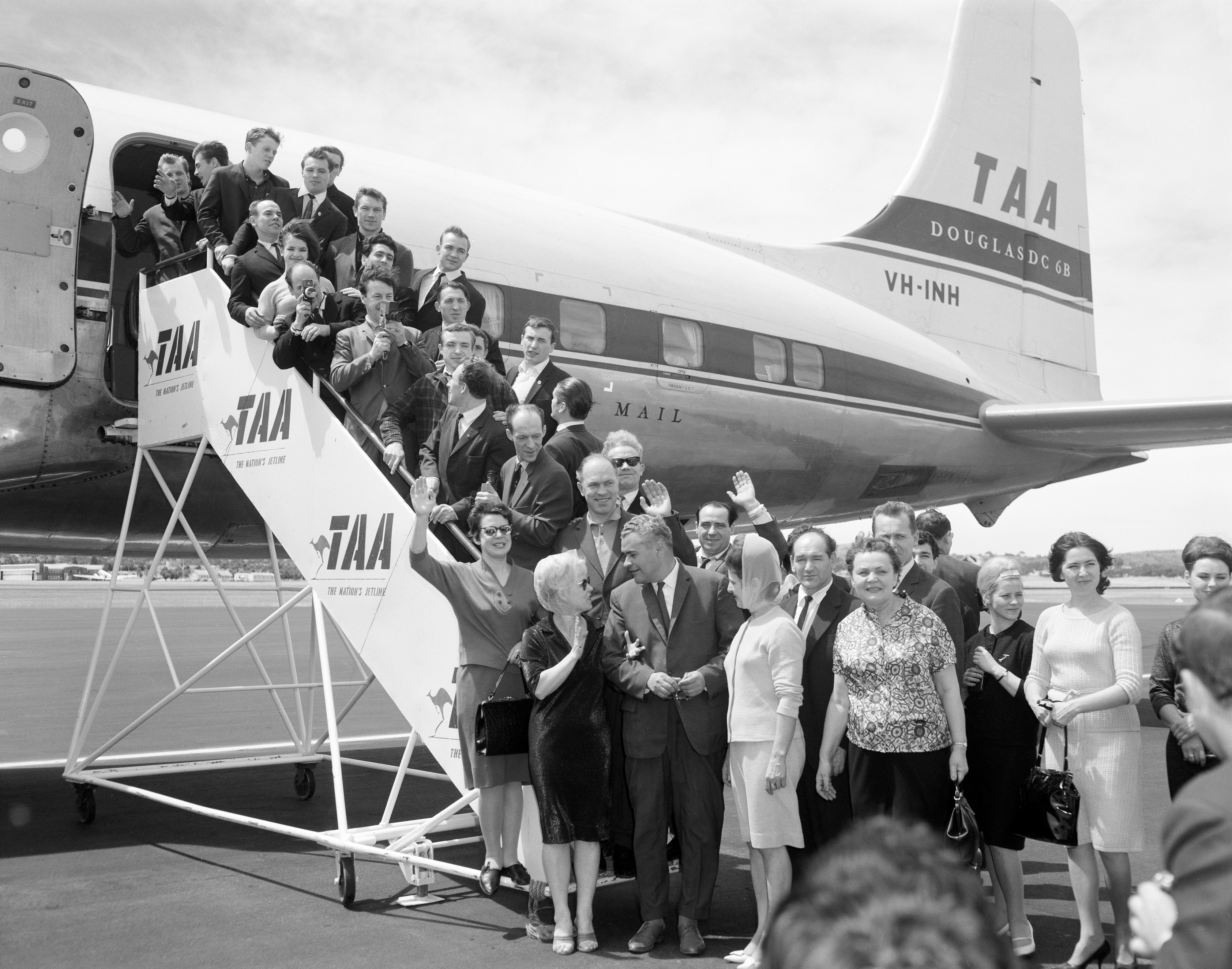 Members of the Moscow State Circus, standing on stairs of their TAA flight at Canberra airport, in 1965.